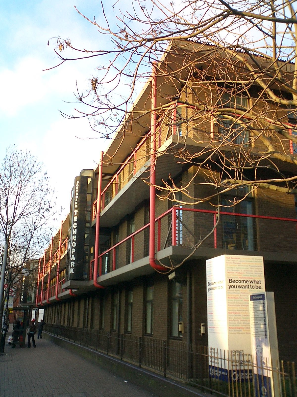 The South Bank Technopark building, London South Bank University, London Road, London SE1, England. Photograph by Jonathan Bowen, 12 January 2006.